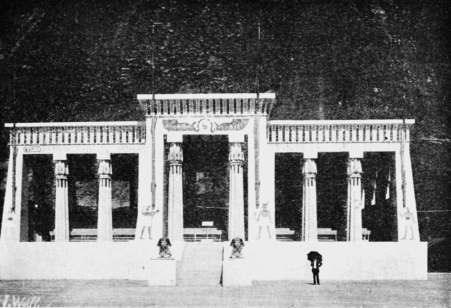 Building at the exposition